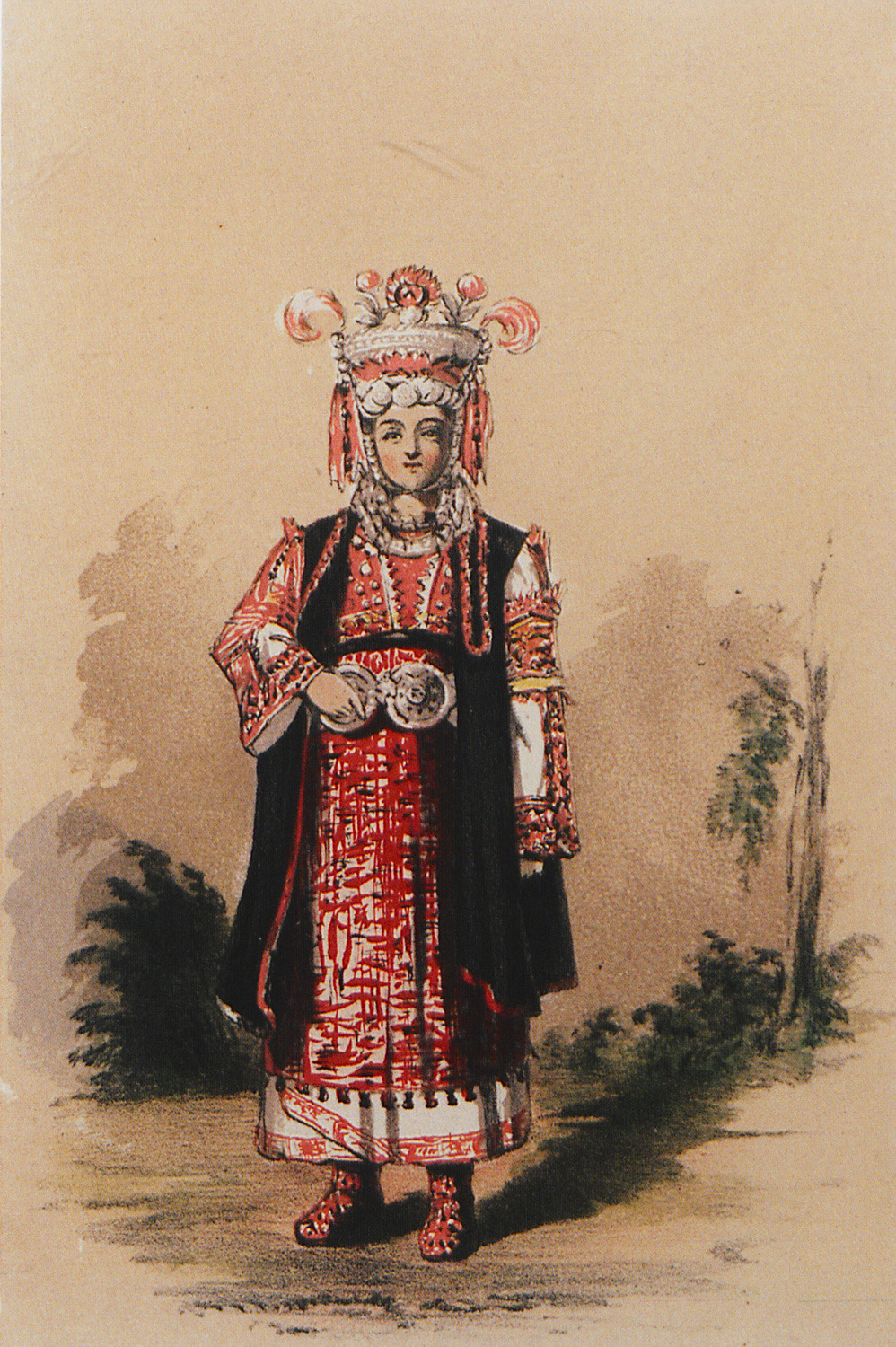 Bulgarian bride from Kalamaria, from: Adelaide Mary Walker, Through Macedonia to the Albanian Lakes, London, Chapman and Hill, 1864.